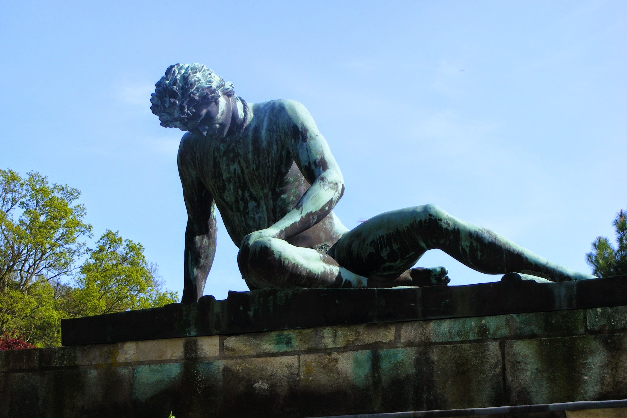 The Dying Gaul / Dying Gladiator / Dying Galatian at Iford Manor, Wiltshire, England.